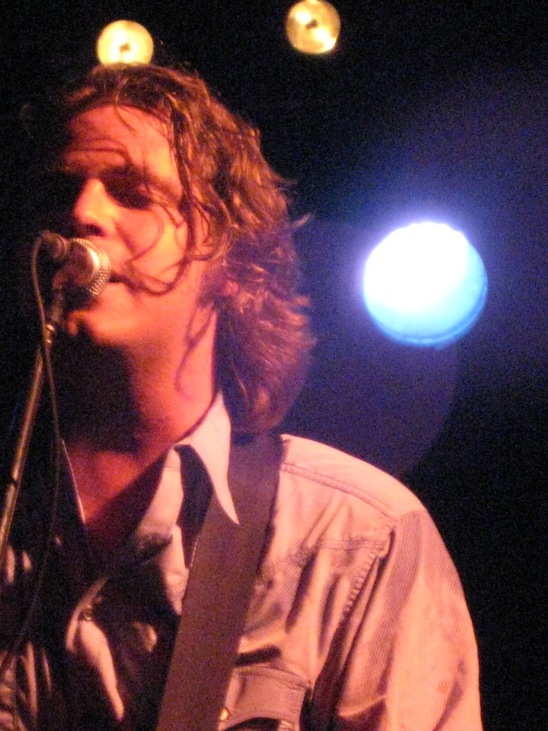 Lead singer Ross Flournoy of The Broken West, in concert in Toronto